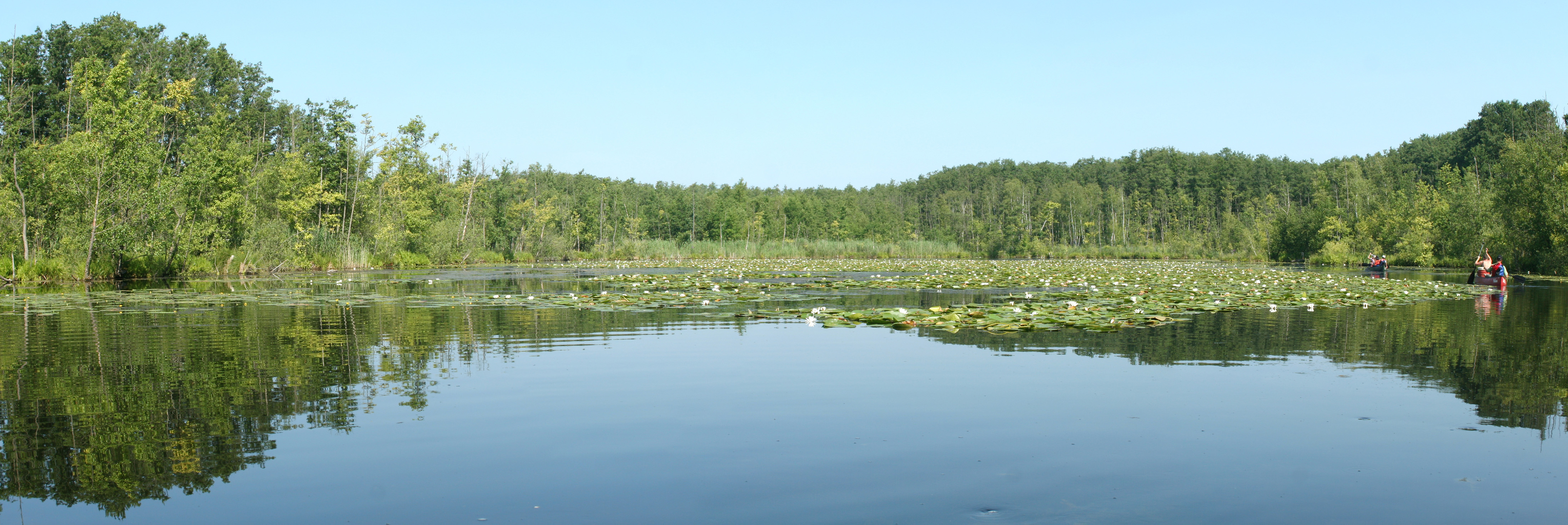 Nymphaeion (albae) on the lake „Klenzsee“ near Wustrow